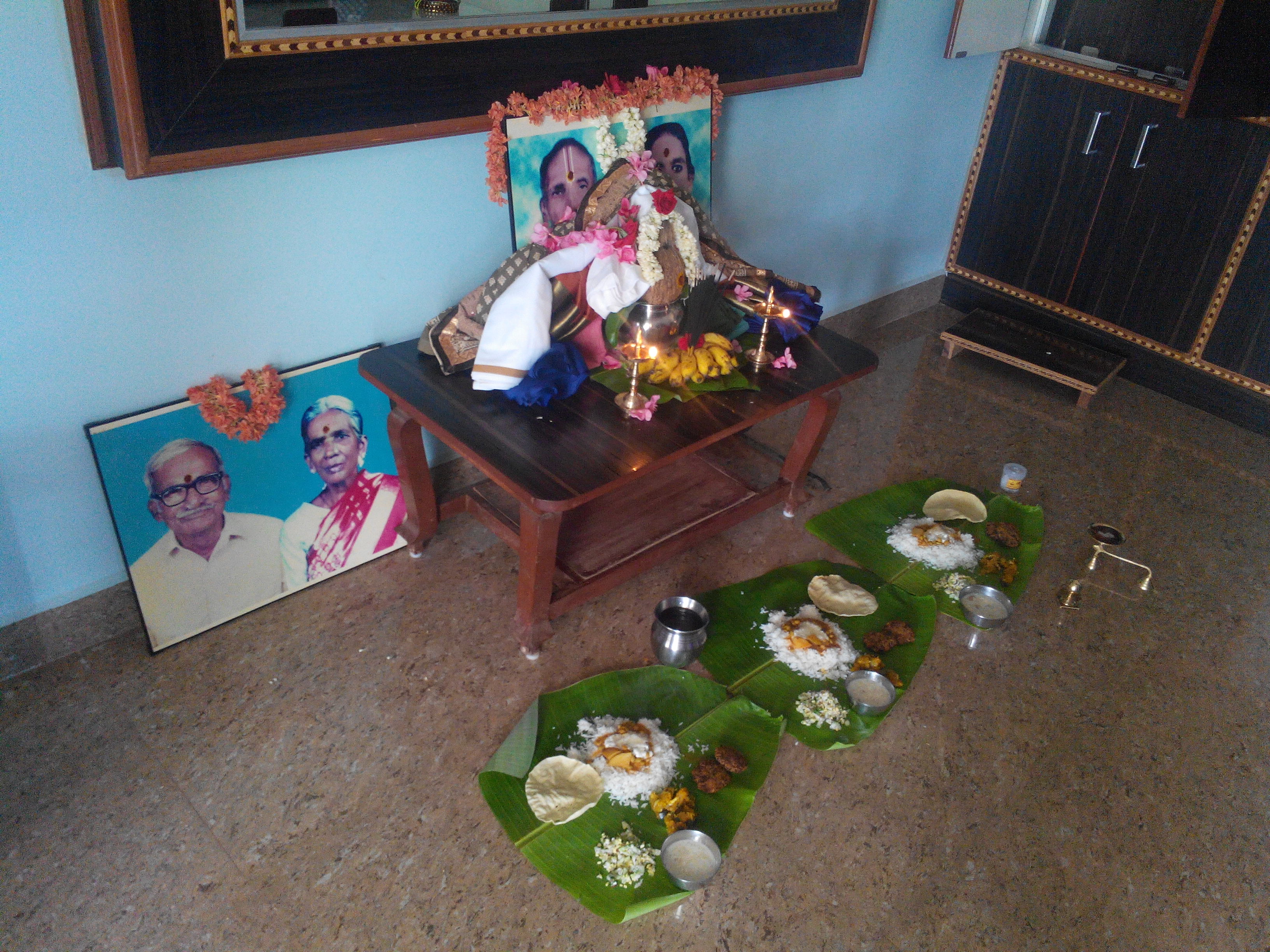 கிருஷ்ணகிரி மாவட்டம் ஒசூரில், ஒரு வீட்டில் முன்னோருக்கு இடப்பட்ட படையல்